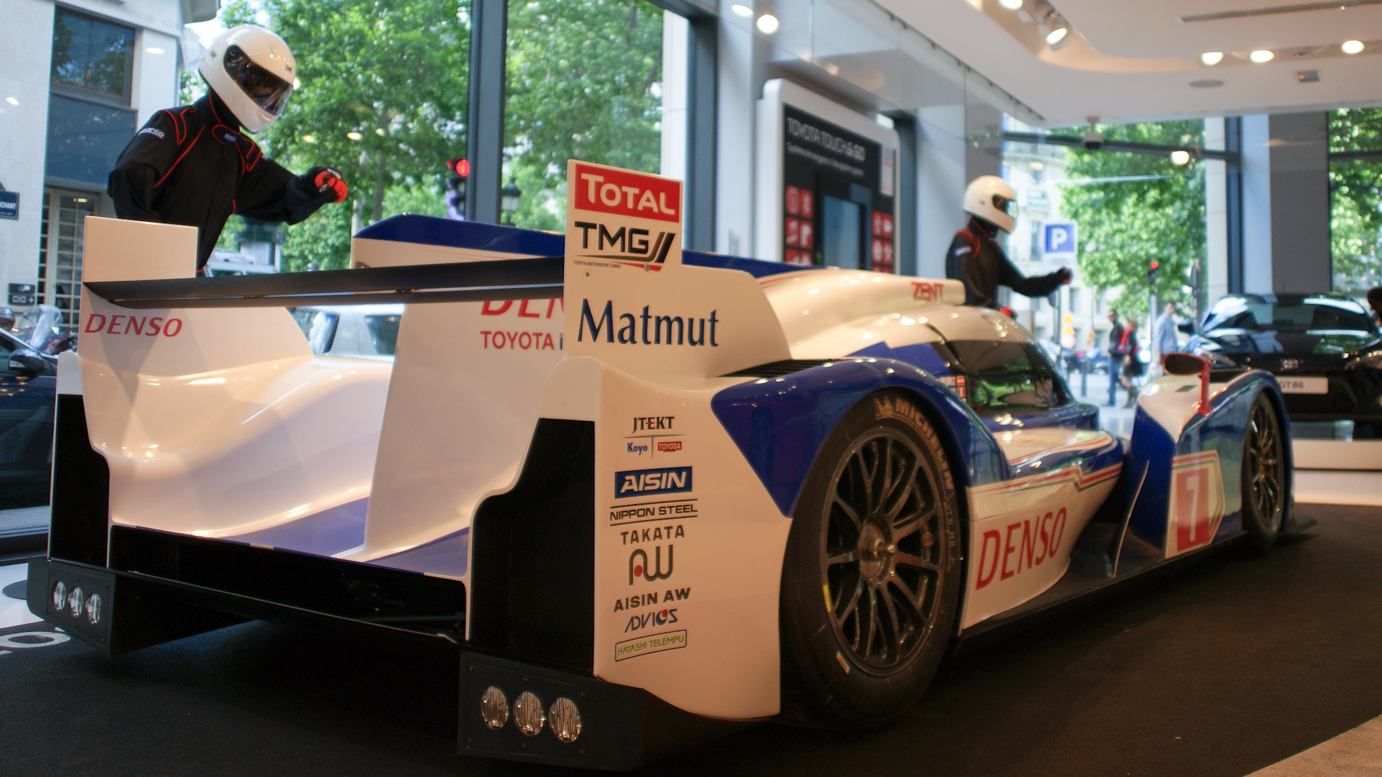 Toyota Le Mans car in Paris